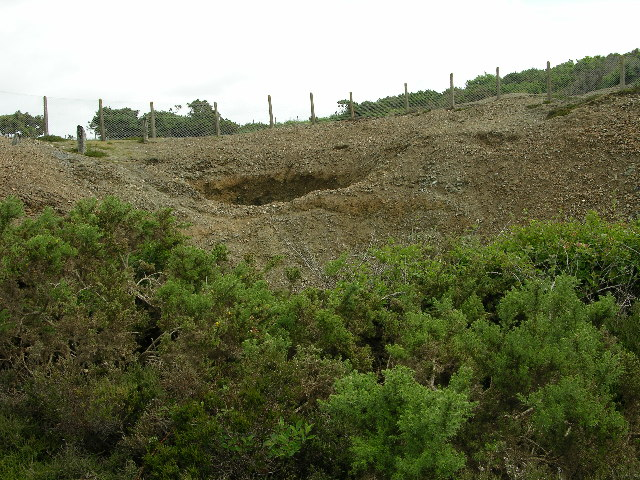 Penberthy Mine. This is one of several disused mineshafts in the area. A bit of research turned up the fact that this was a copper mine originally, later mined for tin also. Closed around 1840.